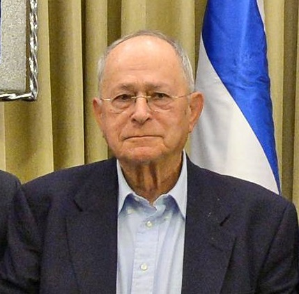 Nachum Admoni